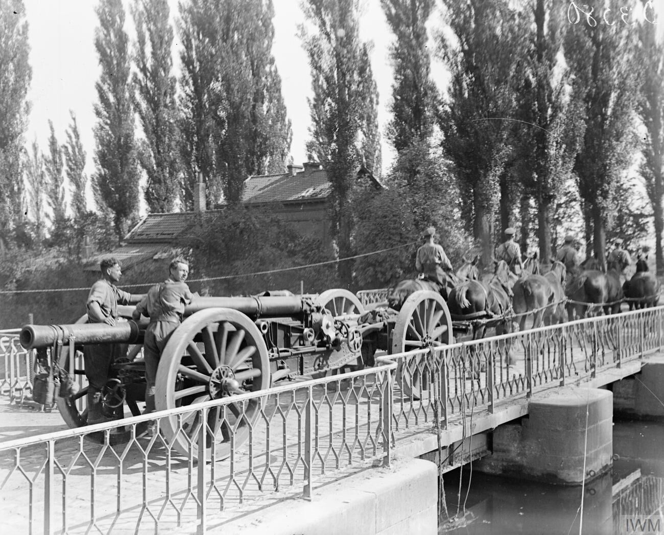 A British 60-pounder gun on Mk I carriage moving forward through St Venant during the advance in Flanders.